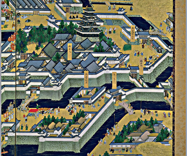 View of Edo, left screen. pair of six-panel folding screens (17th century). UPPER MIDDLE OF FIRST PANEL,Left Screen Central enciente of Edo Castle, Castle Tower, Bairinzaka, Hirakawaguchi Gate.